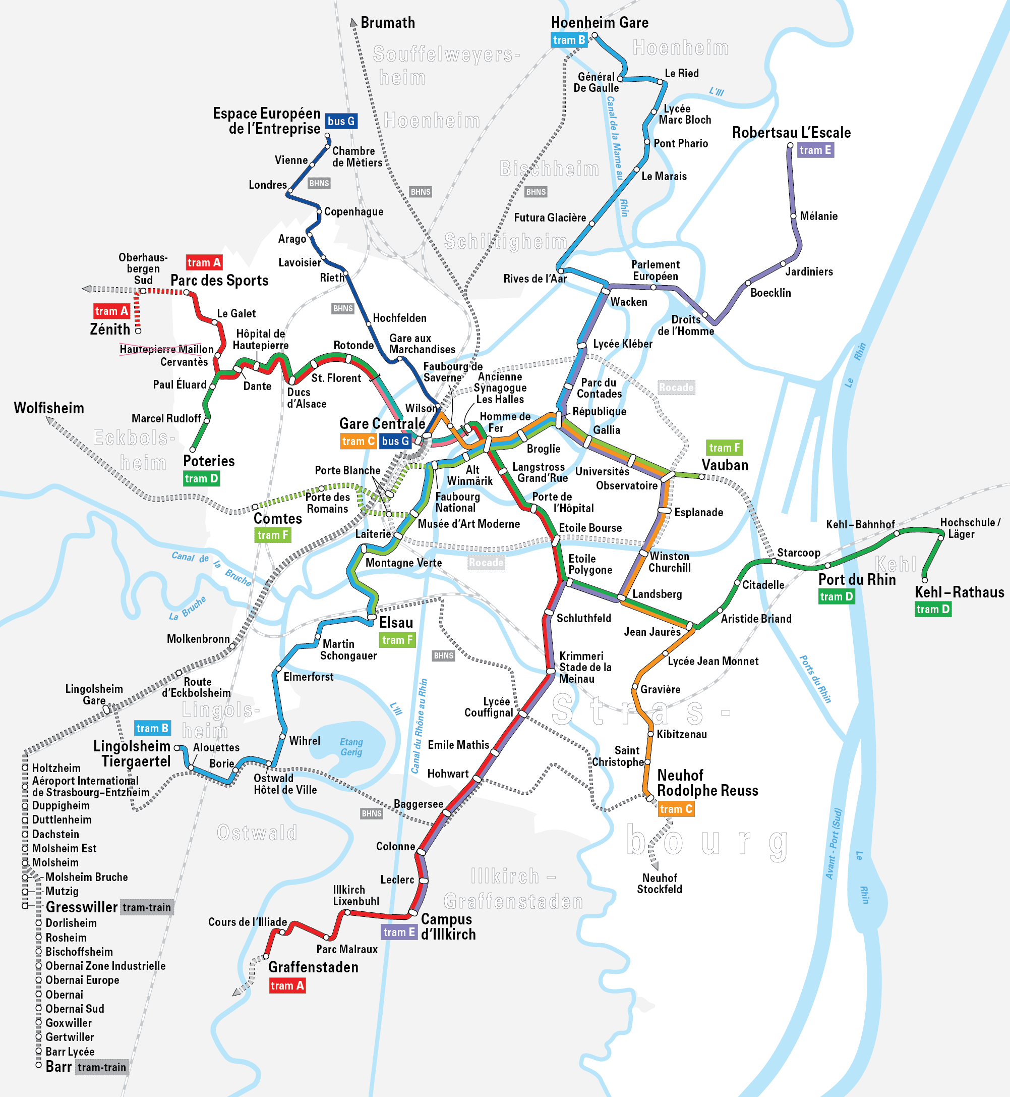 Map: Strasbourg streetcar and Bus Rapid Transit network with possible extensions